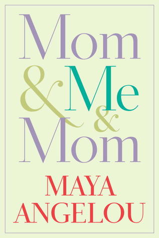 Cover art of Maya Angelou's seventh autobiography, Mom & Me & Mom